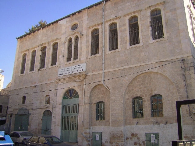 Meah Shearim Yeshiva and Talmud Torah, Jerusalem, Israel